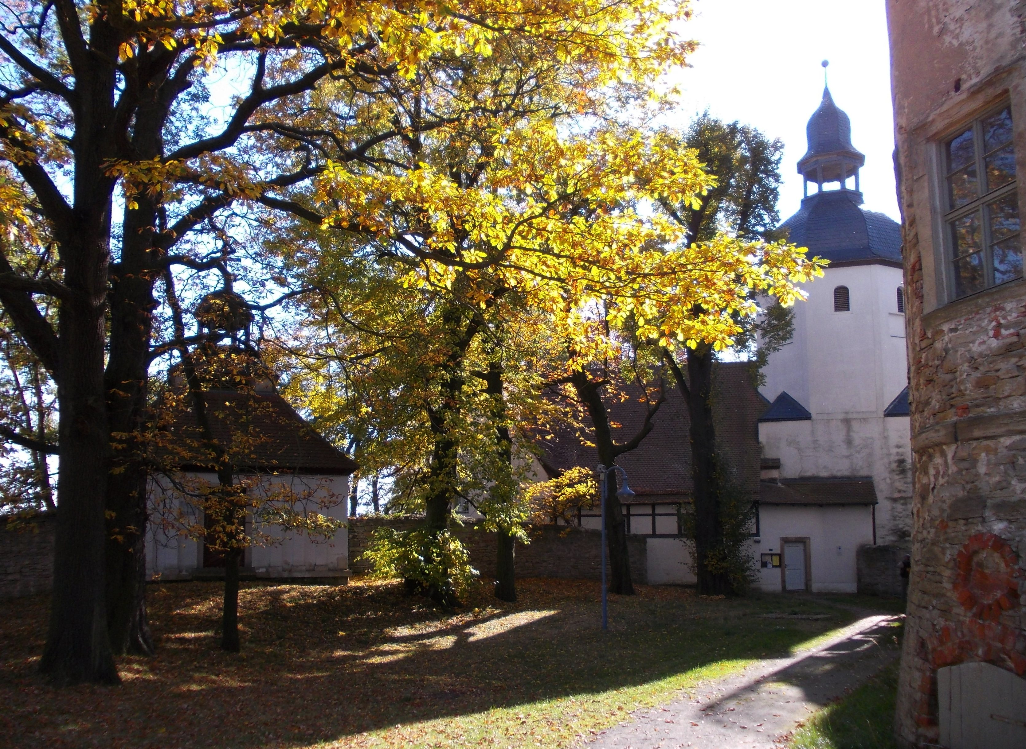 Church of Heuckewalde Castle (Gutenborn, district of Burgenlandkreis, Saxony-Anhalt)